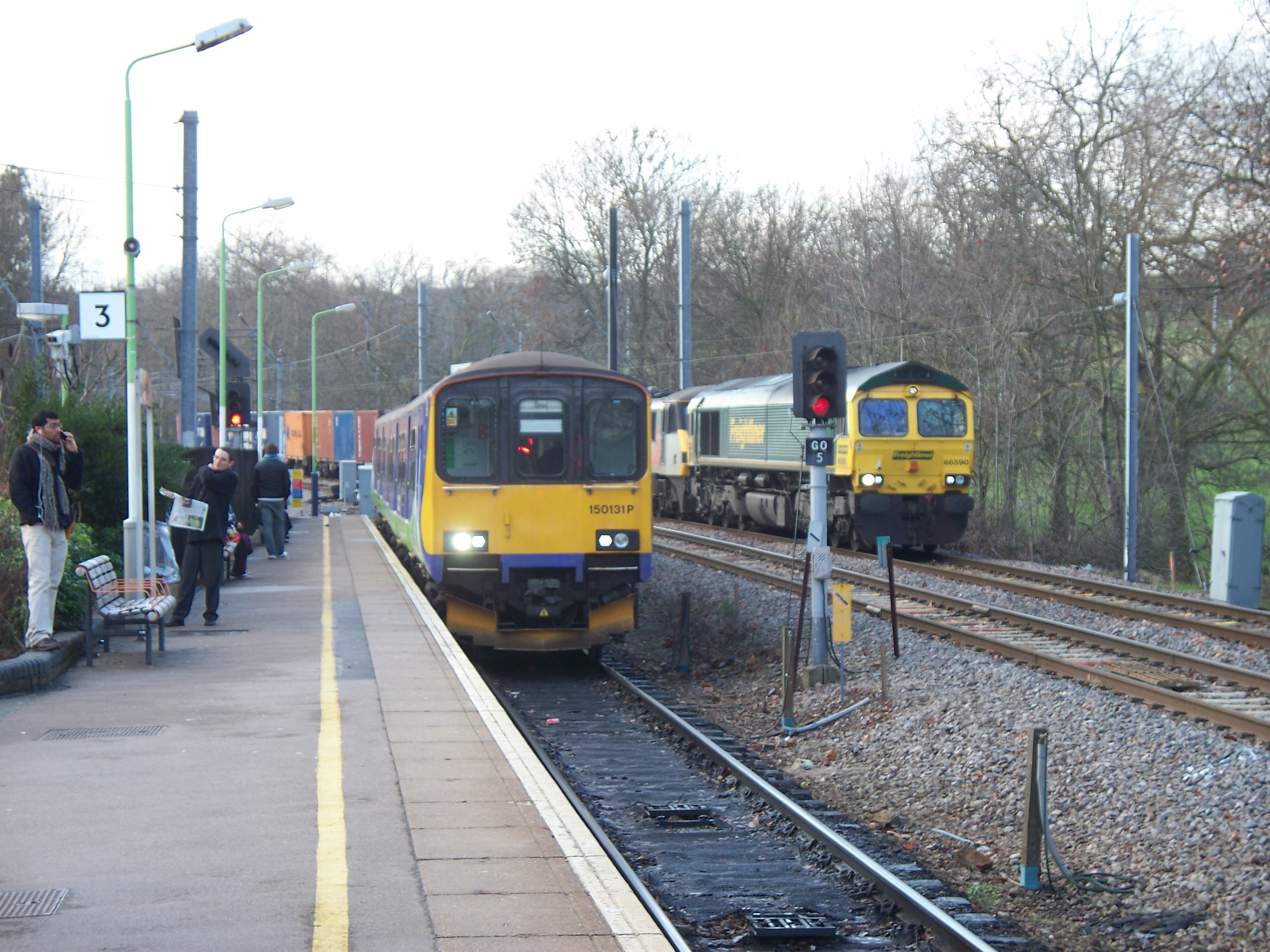 Freightliner class 66 locomotive 66590 passes class 150 London Overground passenger train 150131 ("Leslie Crabbe") in the bay platform of Gospel Oak station. Photograph taken in a public location in the UK of a building on permanent public display, and exempt from copyright under Section 62 of the Copyright Designs & Patents Act 1988 ("it is not an infringement of copyright to film, photograph, broadcast or make a graphic image of a building, sculpture, models for buildings or work of artistic craftsmanship if that work is permanently situated in a public place or in premises open to the public")